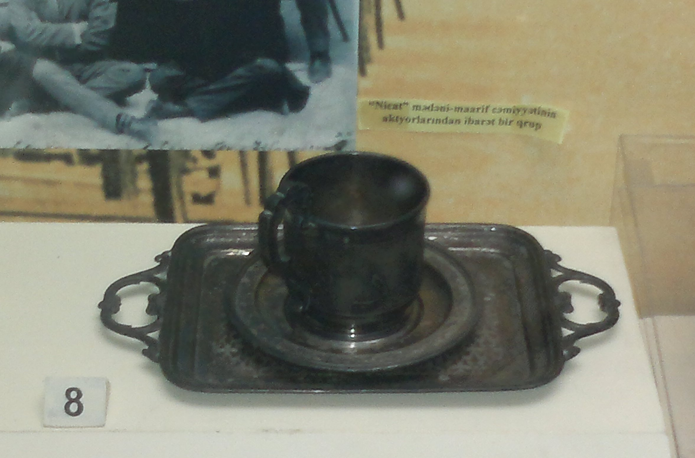 Belongings of Sakina Akhundzade in National History Museum of Azerbaijan